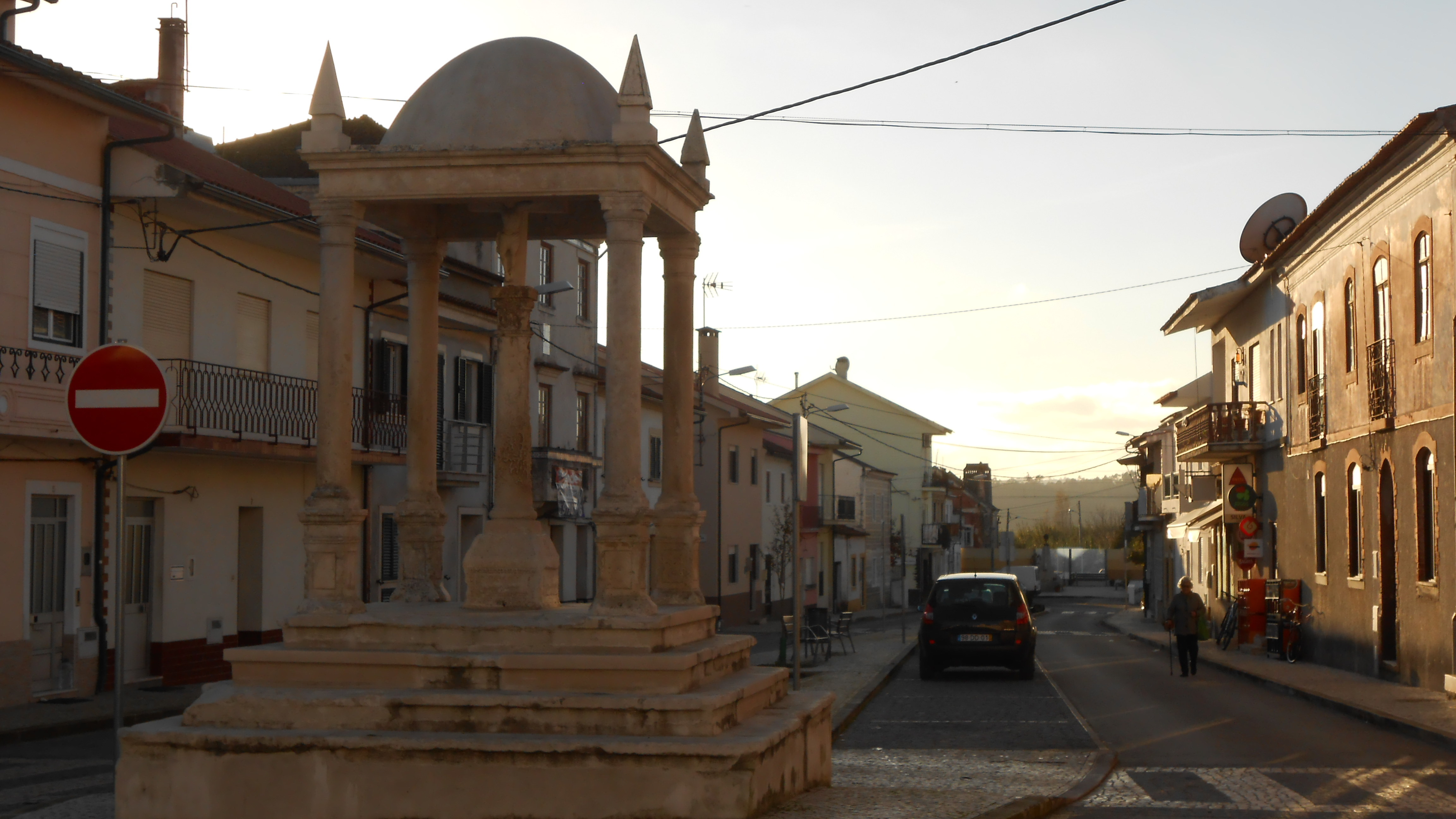 Covered stone cross in Vila Nova de Anços.